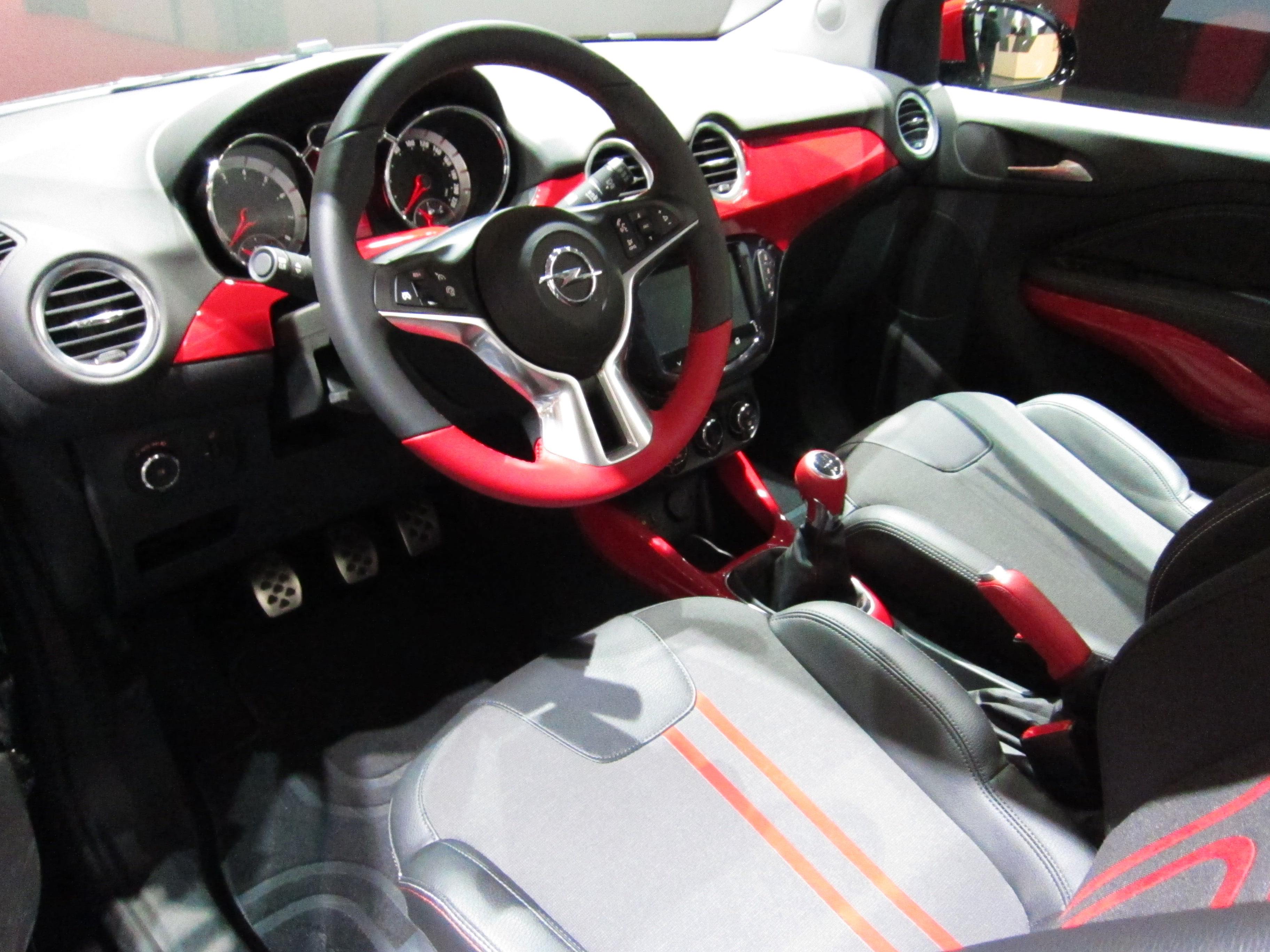 Opel Adam at Mondial de l'Automobile Paris 2012